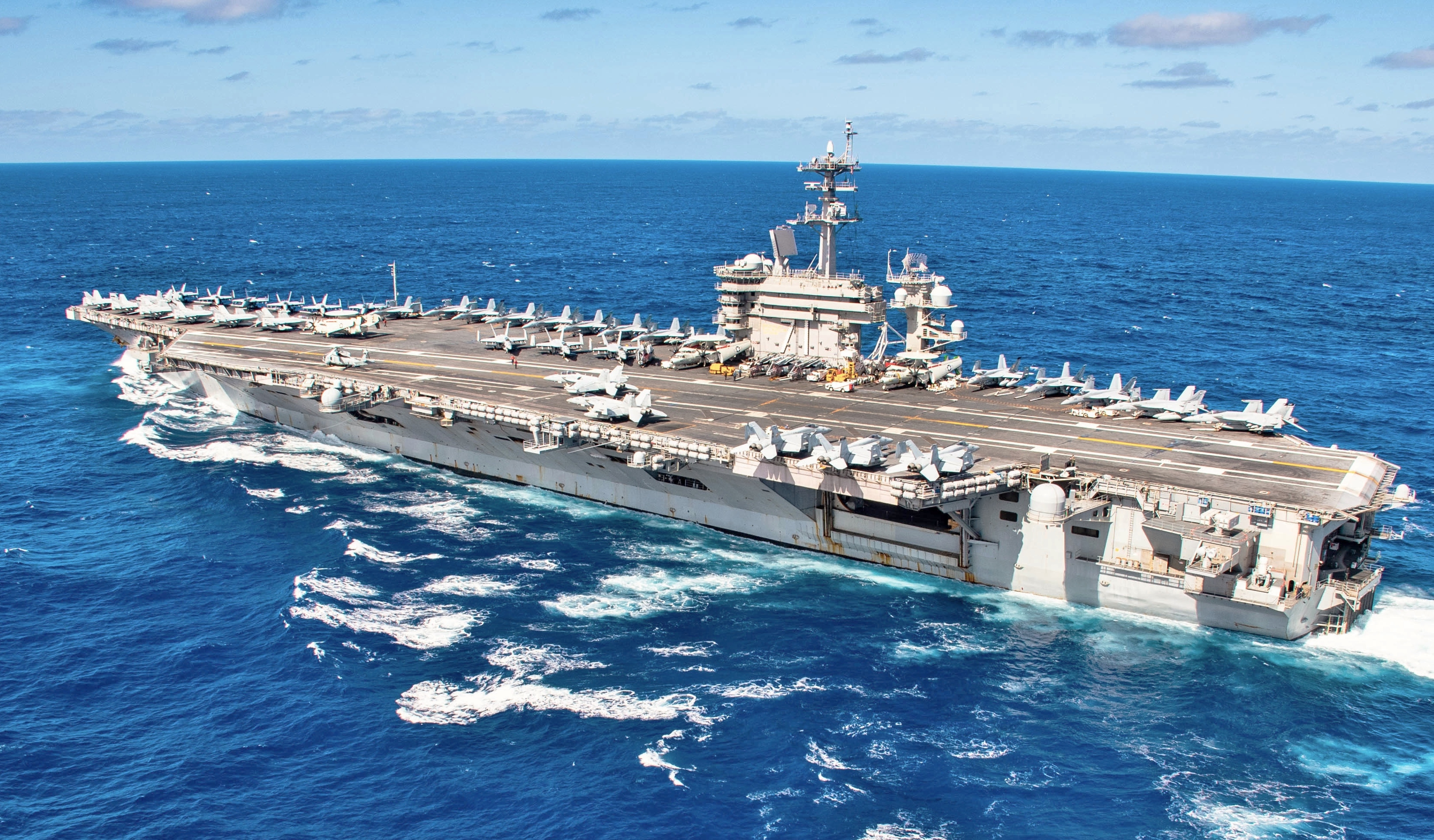 200125-N-KB540-1134 PACIFIC OCEAN (Jan. 25, 2020) The aircraft carrier USS Theodore Roosevelt (CVN 71) transits the Pacific Ocean Jan. 25, 2020. The Theodore Roosevelt Carrier Strike Group is on a scheduled deployment to the Indo-Pacific. (U.S. Navy photo by Mass Communication Specialist Seaman Alexander Williams)